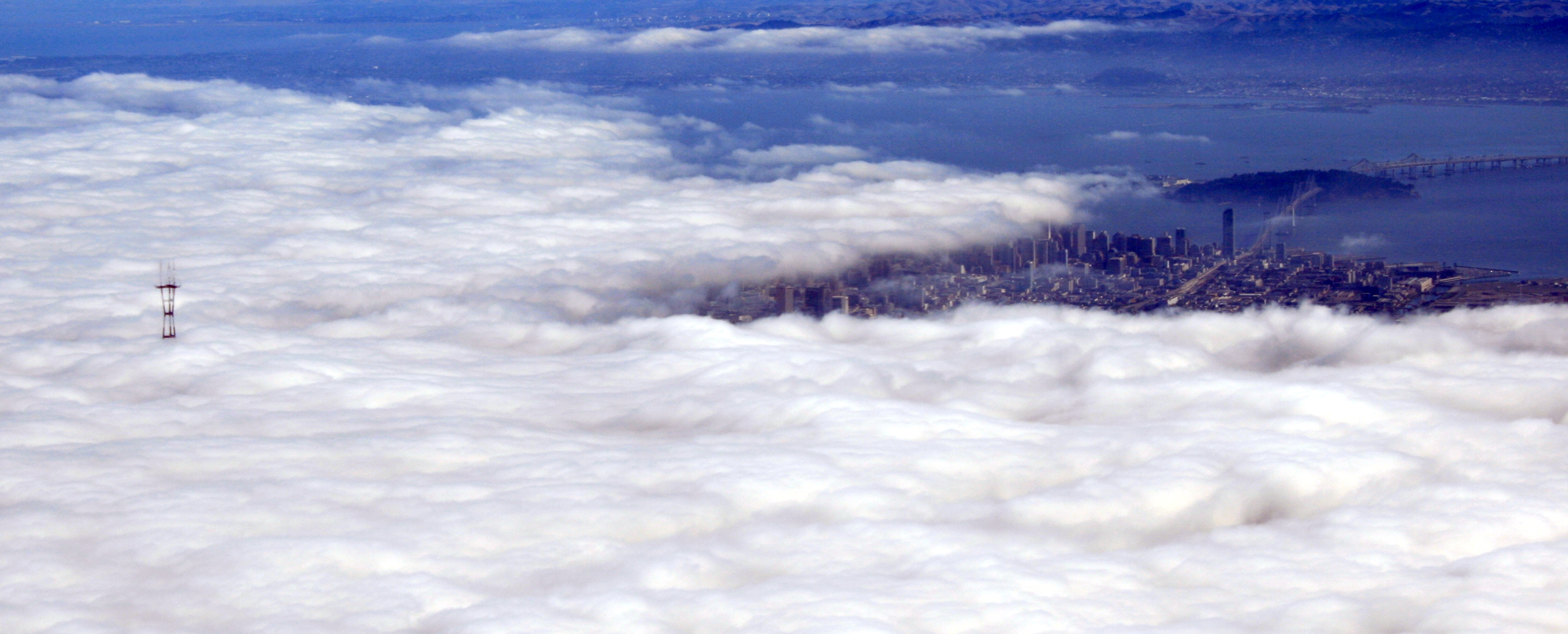 The Fog leaving Downtown San Francisco, Sutro Tower and Bay Bridge intact. The picture was taken from a plane.